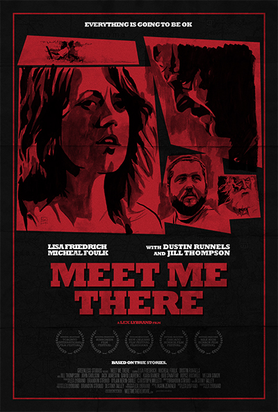 Poster for 2014 American horror film, Meet Me There with artwork created by Rob Schamberger. Use is explicitly allowed via